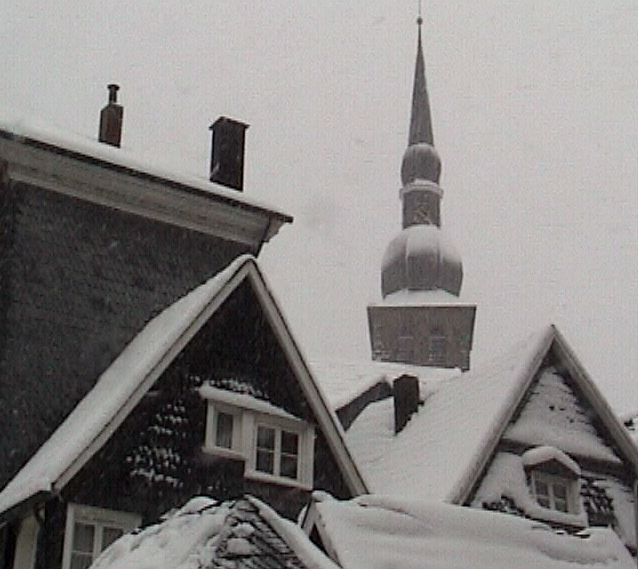 Description: Langenberg (Rheinland) Germany: old houses and steeple Source: own photo Date: November 26, 2005 Author: Gerd Thiele